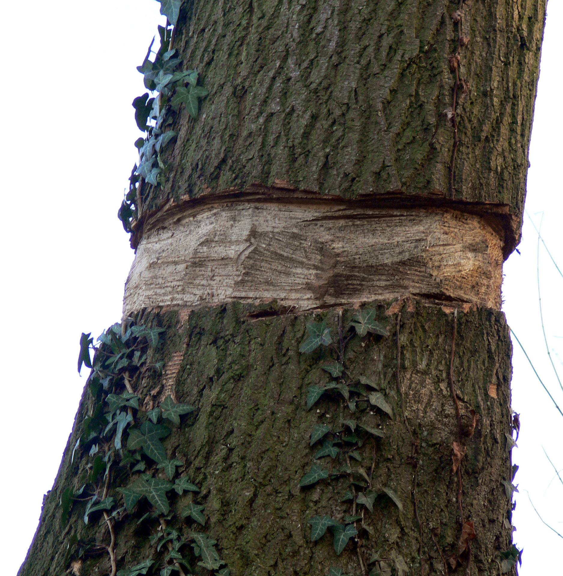 Girdling, also called ring barking or ring-barking, is the process of completely removing a strip of bark (consisting of Secondary Phloem tissue, cork cambium, and cork) around a tree's outer circumference, causing its death. Here girdling occurs by deliberate human action to give new habitats to species of dead woods (Lille, North of France, Parc de la Cidatelle (Bois de Boulogne)